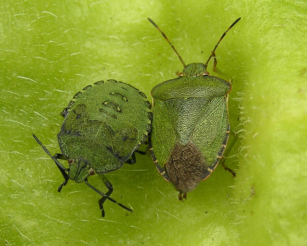 Palomena prasina